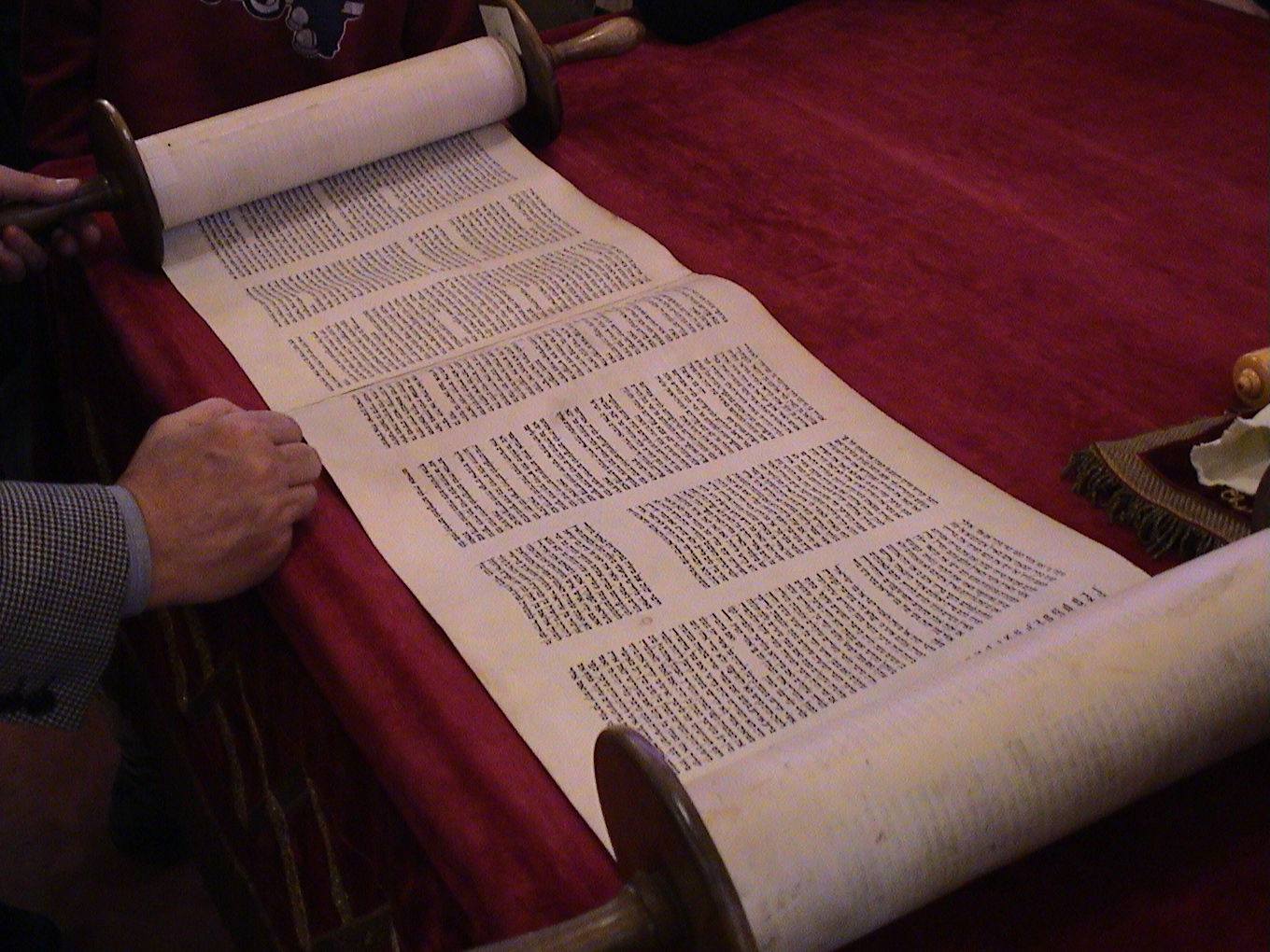 Luxembourg City Synagogue Sefer Torah